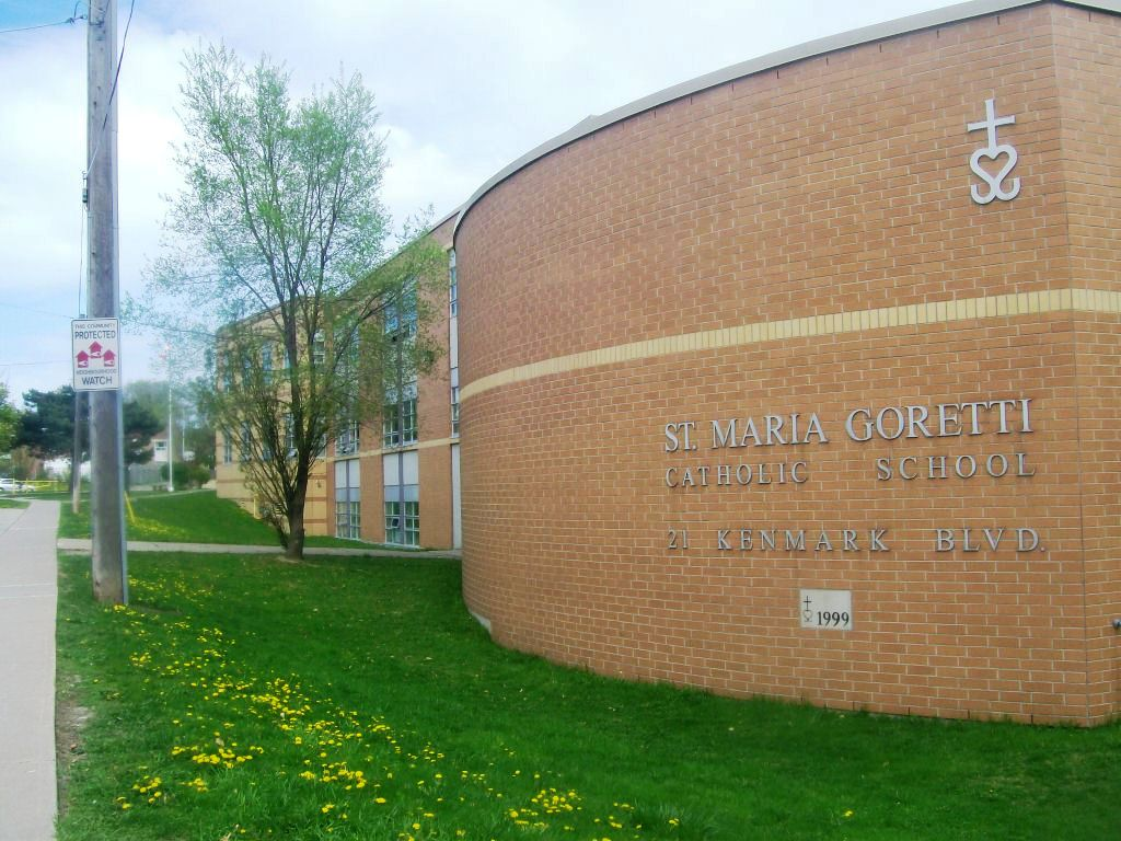 View of St. Maria Goretti CS at 21 Kenmark Bvd, near Kennedy Rd and Eglinton Ave., Toronto (Scarborough) Ontario Canada, May 2013.